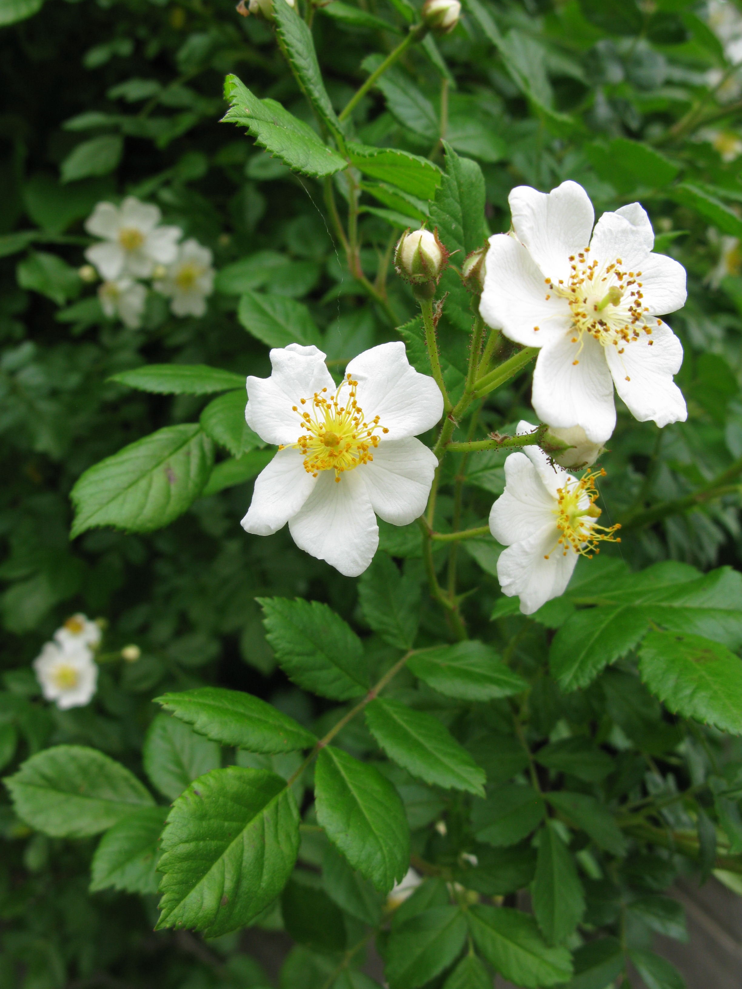 Rosa multiflora, Aizu area, Fukushima pref., Japan